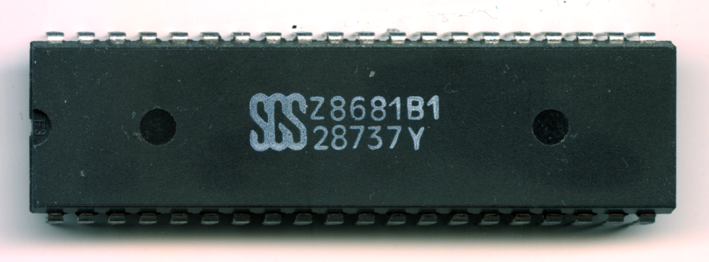 IC photo